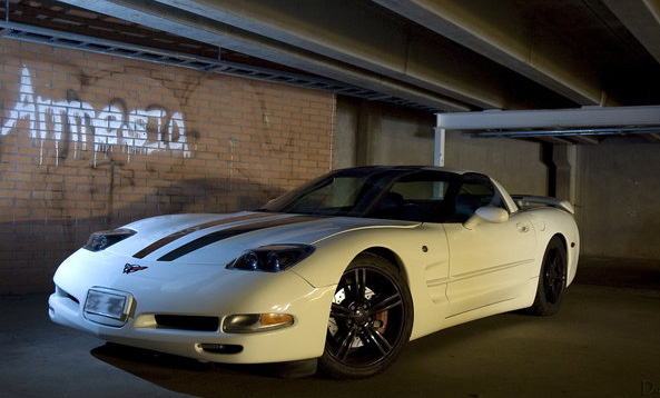 Chevrolet Corvette C5 1997-2004